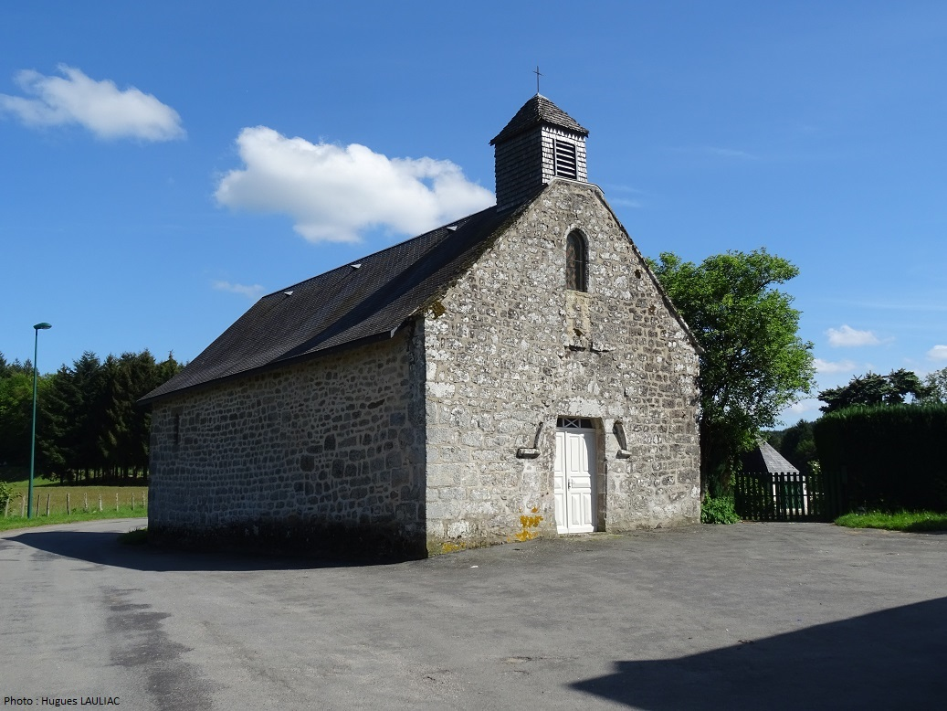 Chapelle ND de la Bussière, Lestards